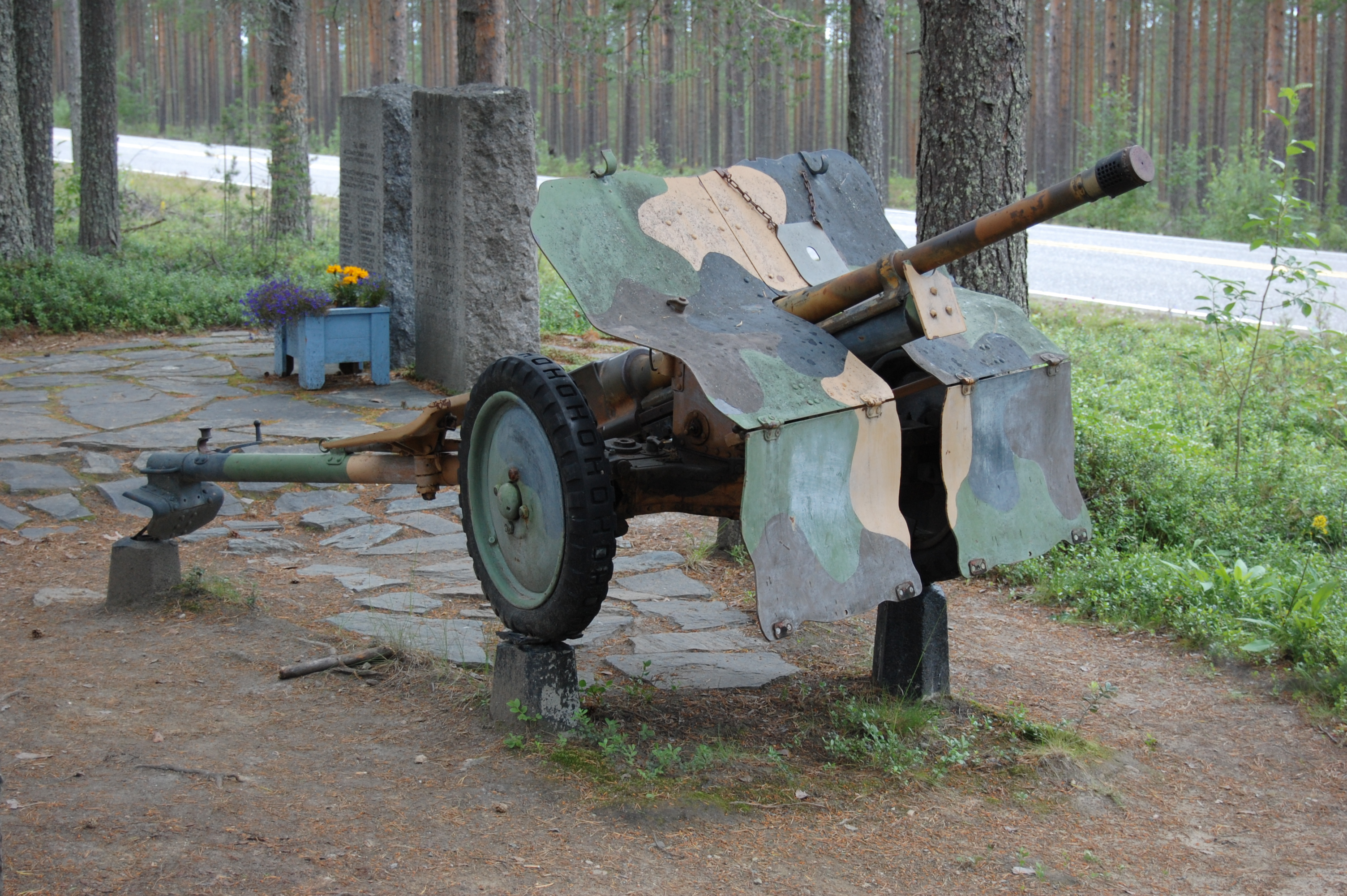 Bofors 37 mm gun that is part of a memorial for Swedish Volunteer Corps in Paikanselkä, Salla, Finland